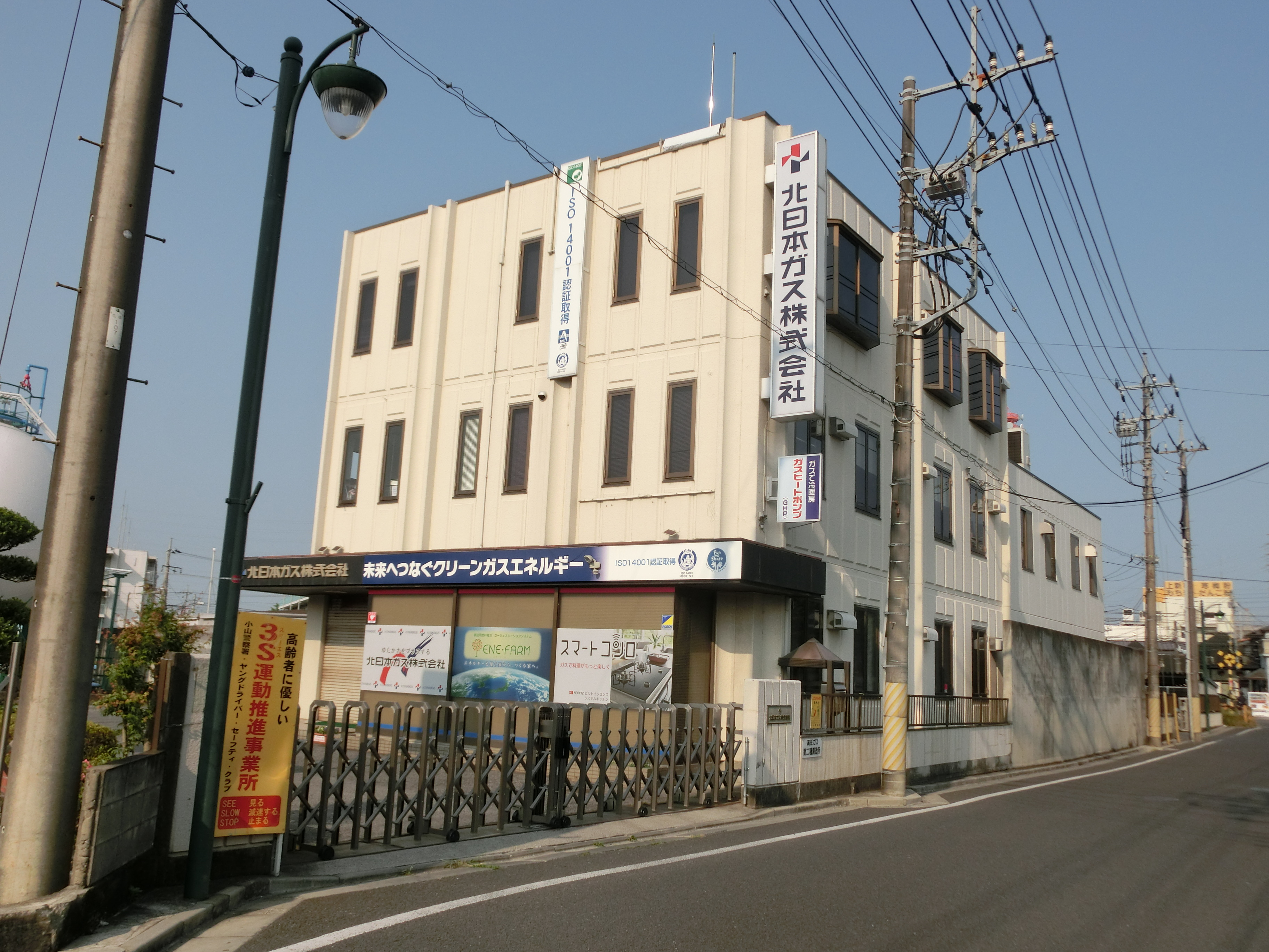 Kitanihon Gas Head Office